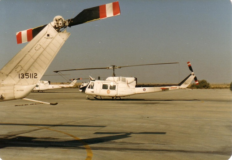 I took this photo of Canadian CH135s on the El Gorah flight line in 1989.